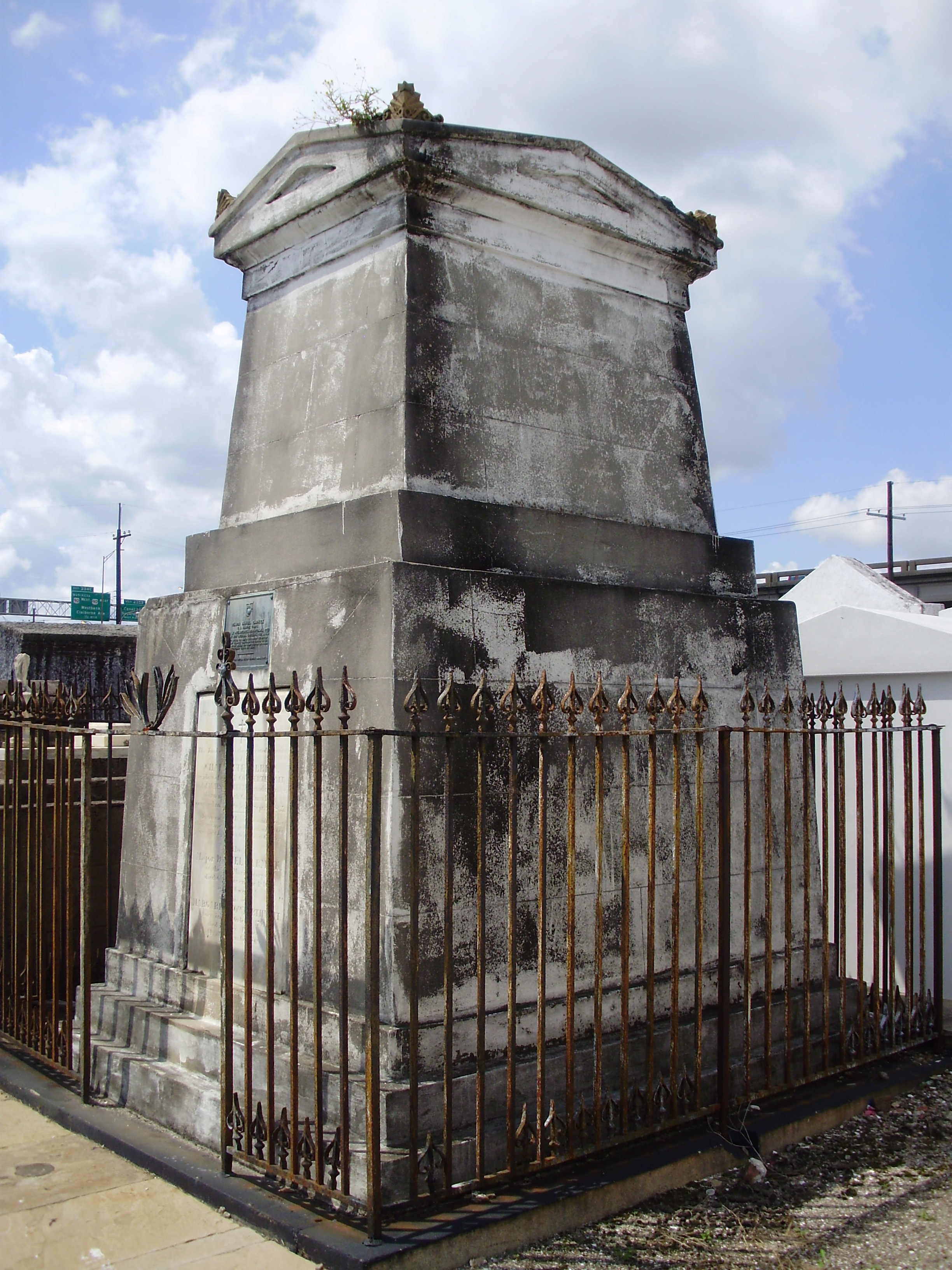 Daniel Carmick Tomb St. Louis No. 2 Cemetery New Orleans, LA (USA)